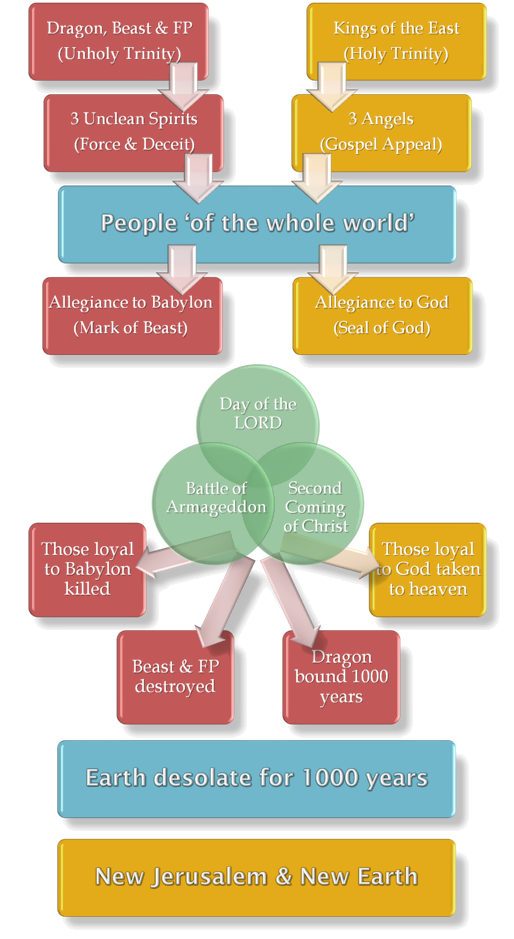 Flowchart of SDA understanding of Armageddon